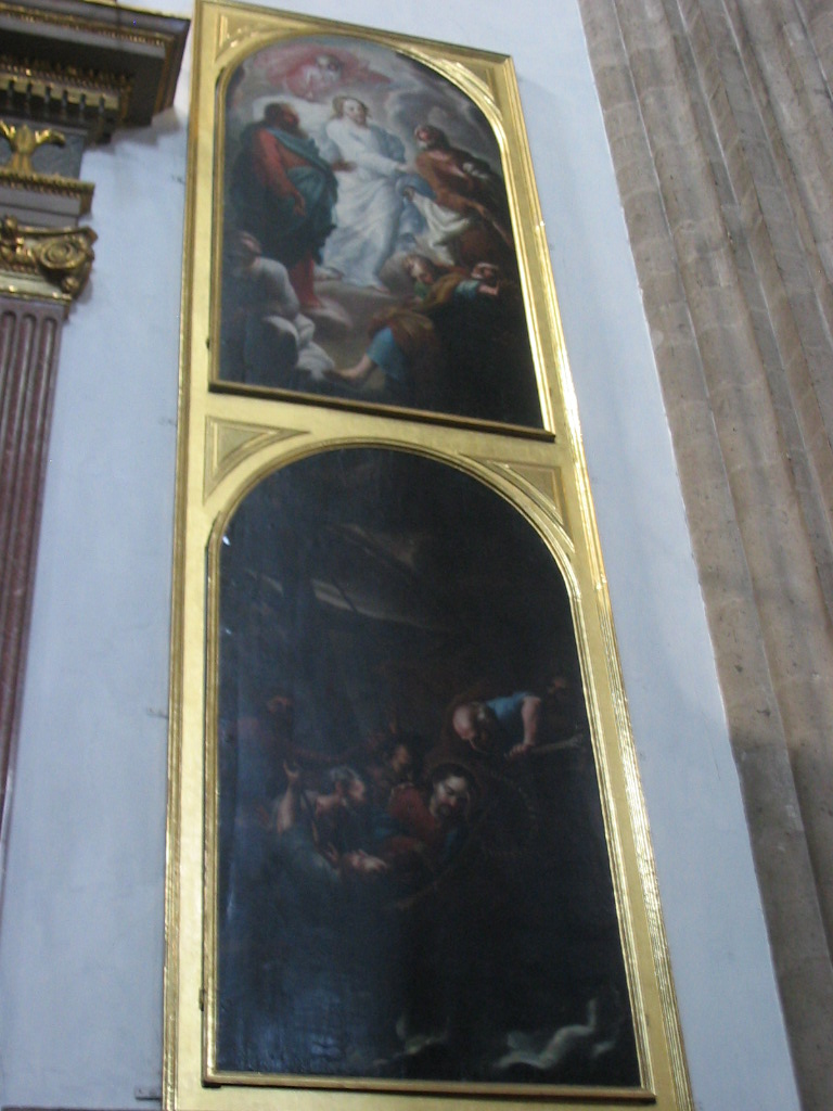 La Profesa two paintings